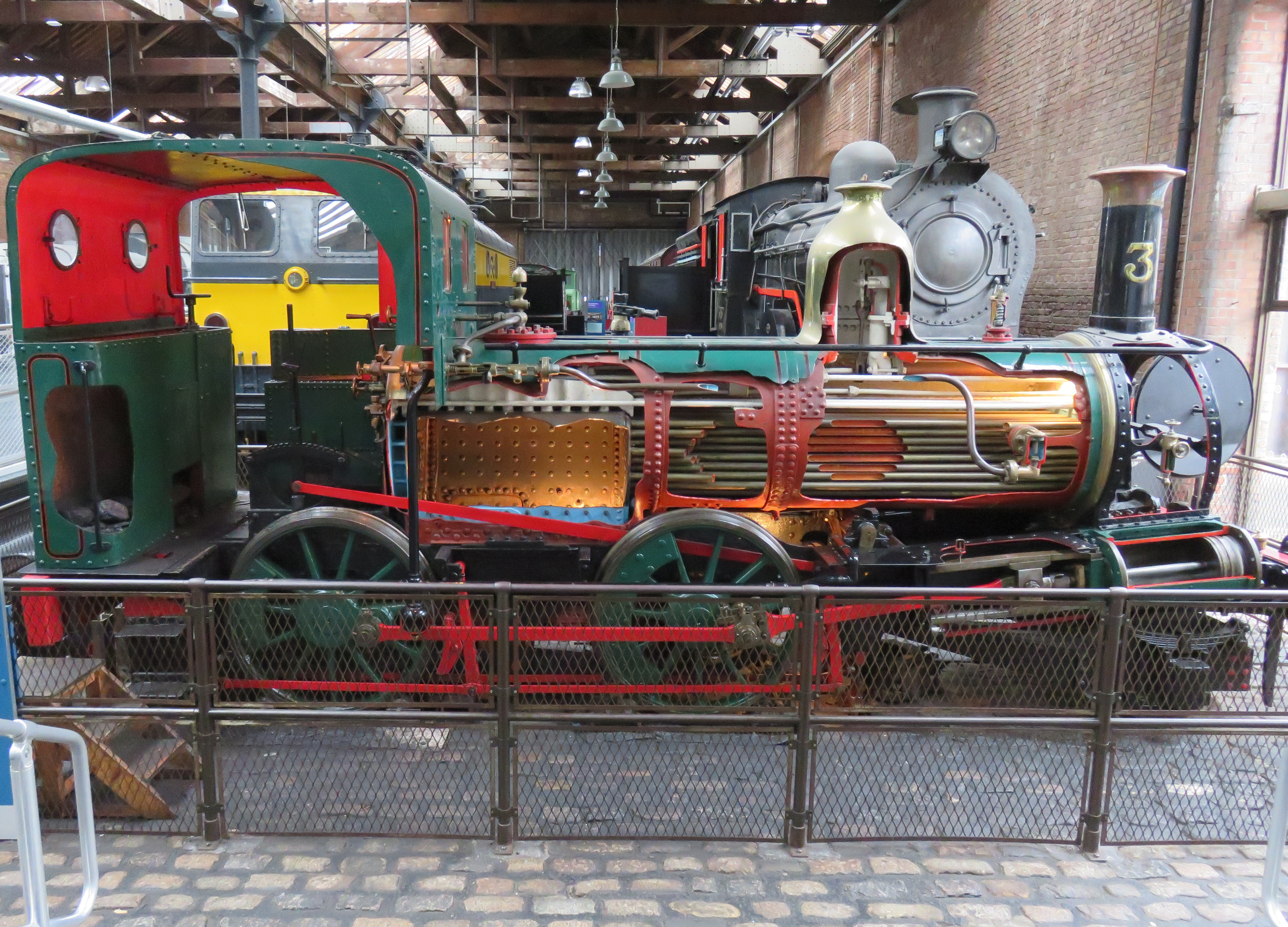 Beyer, Peacock and Company Locomotive , Built in 1873 at Museum of Science and Industry (MOSI) Manchester, United Kingdom. View of inside parts.